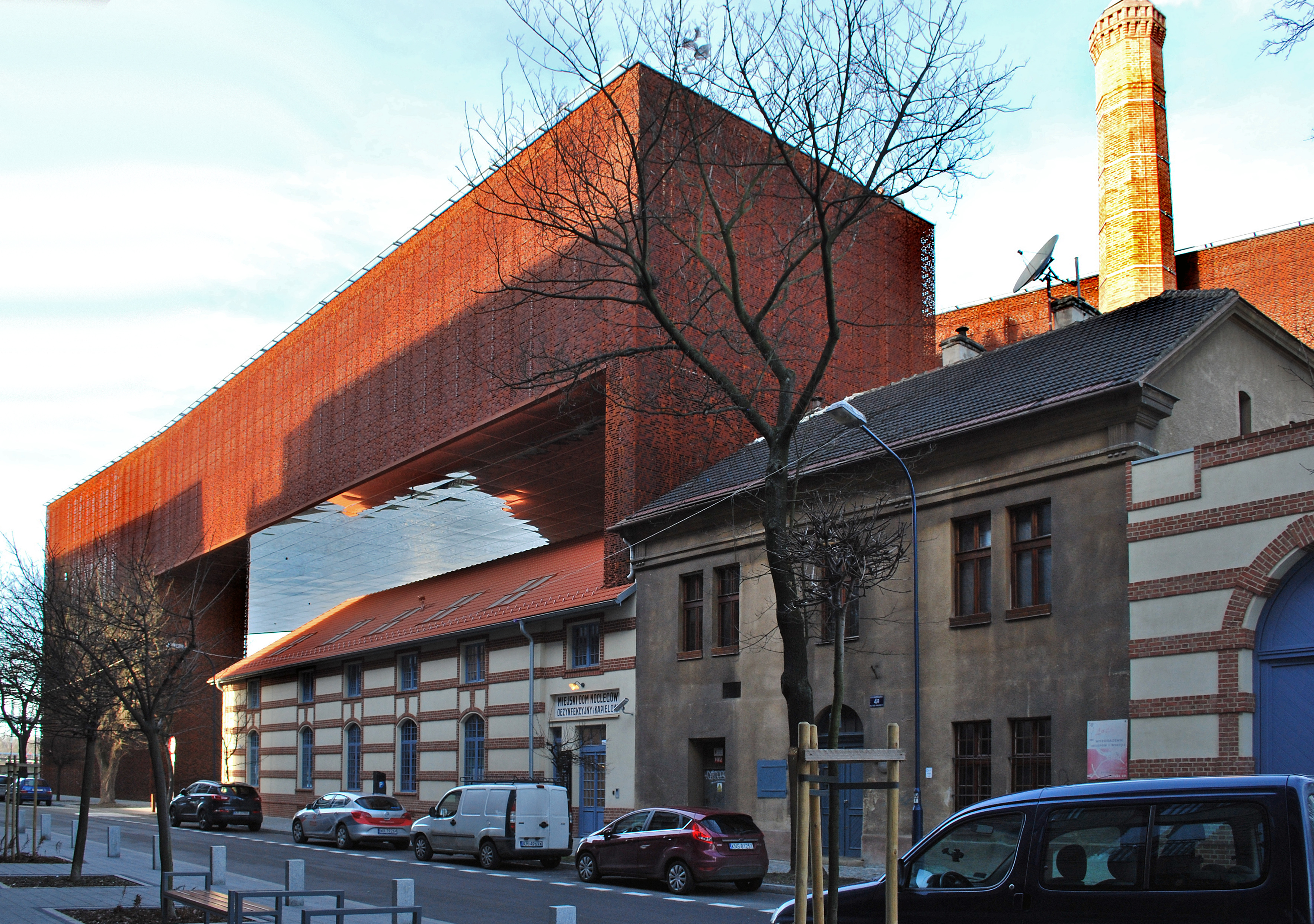 Centre for the Documentation of the Art of Tadeusz Kantor Cricoteka (S), 2-4 Nadwislanska street, Podgórze, Krakow, Poland